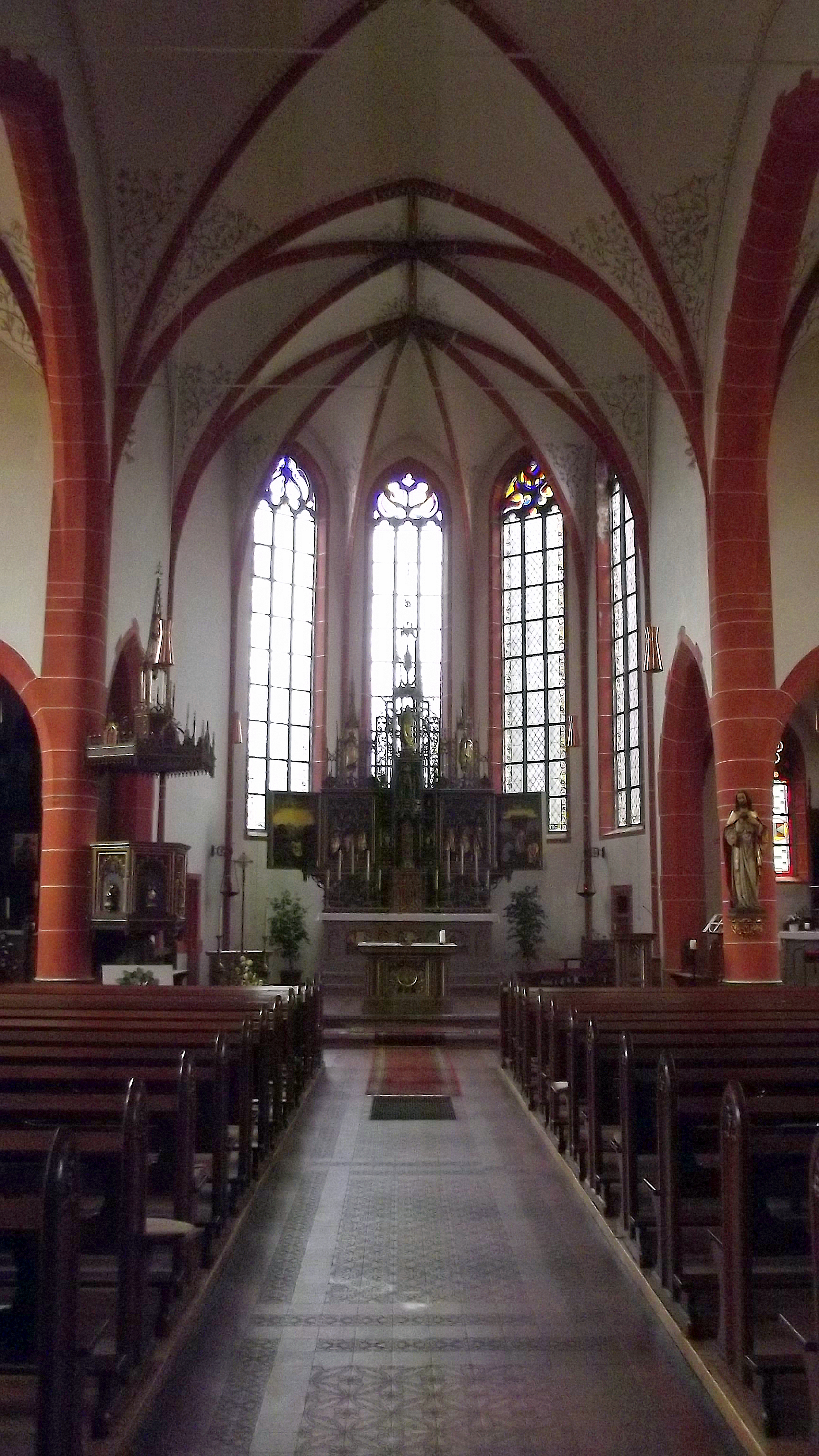 Church of Nonnweiler (Saarland)